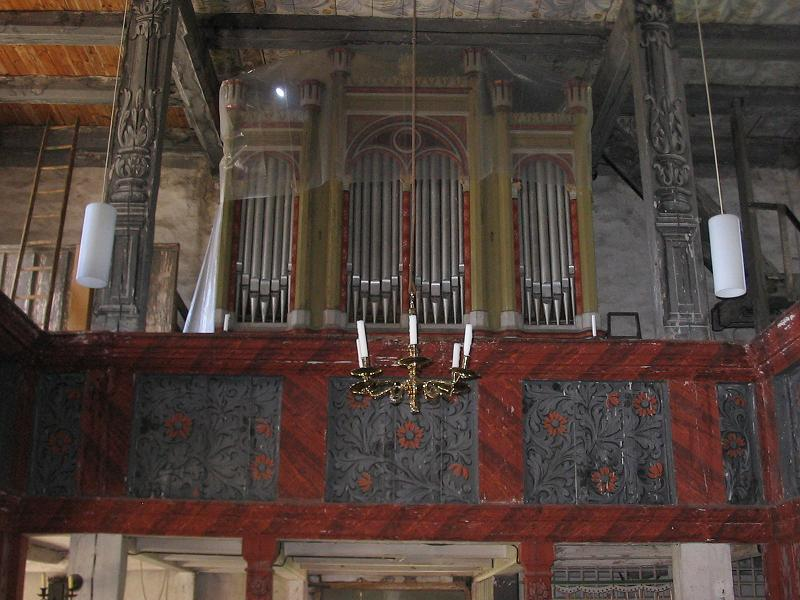 Stone church Raben, built in the first half of the13th century; gallery with the organ. The village Raben is a part of the municipality Rabenstein/Fläming in the district Potsdam Mittelmark, state Brandenburg, Germany. Raben appertains to the natural preserve Naturpark Hoher Fläming.